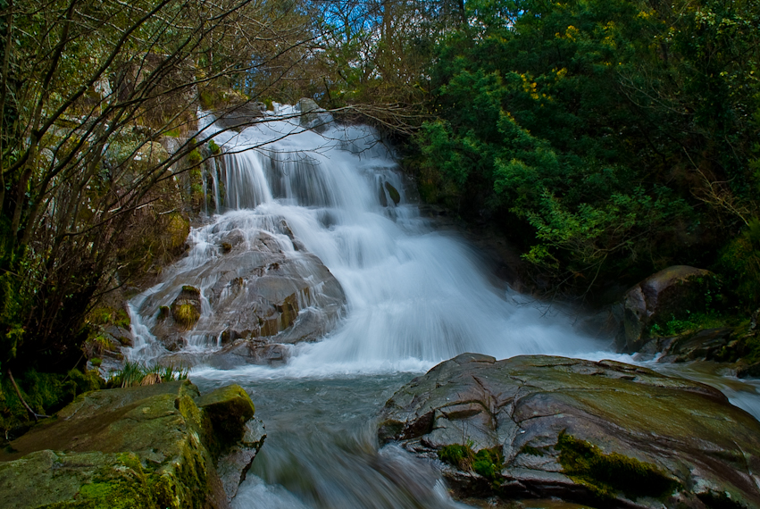 Waterfall in Lousame, A Coruña.